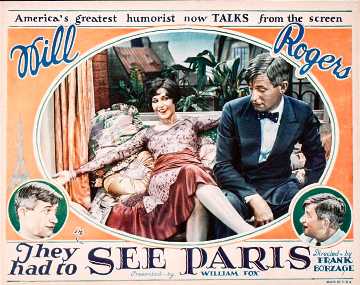 Lobby card for the American comedy film They Had to See Paris (1929). There are no copyright marks on the item. At lower right is Made in USA.